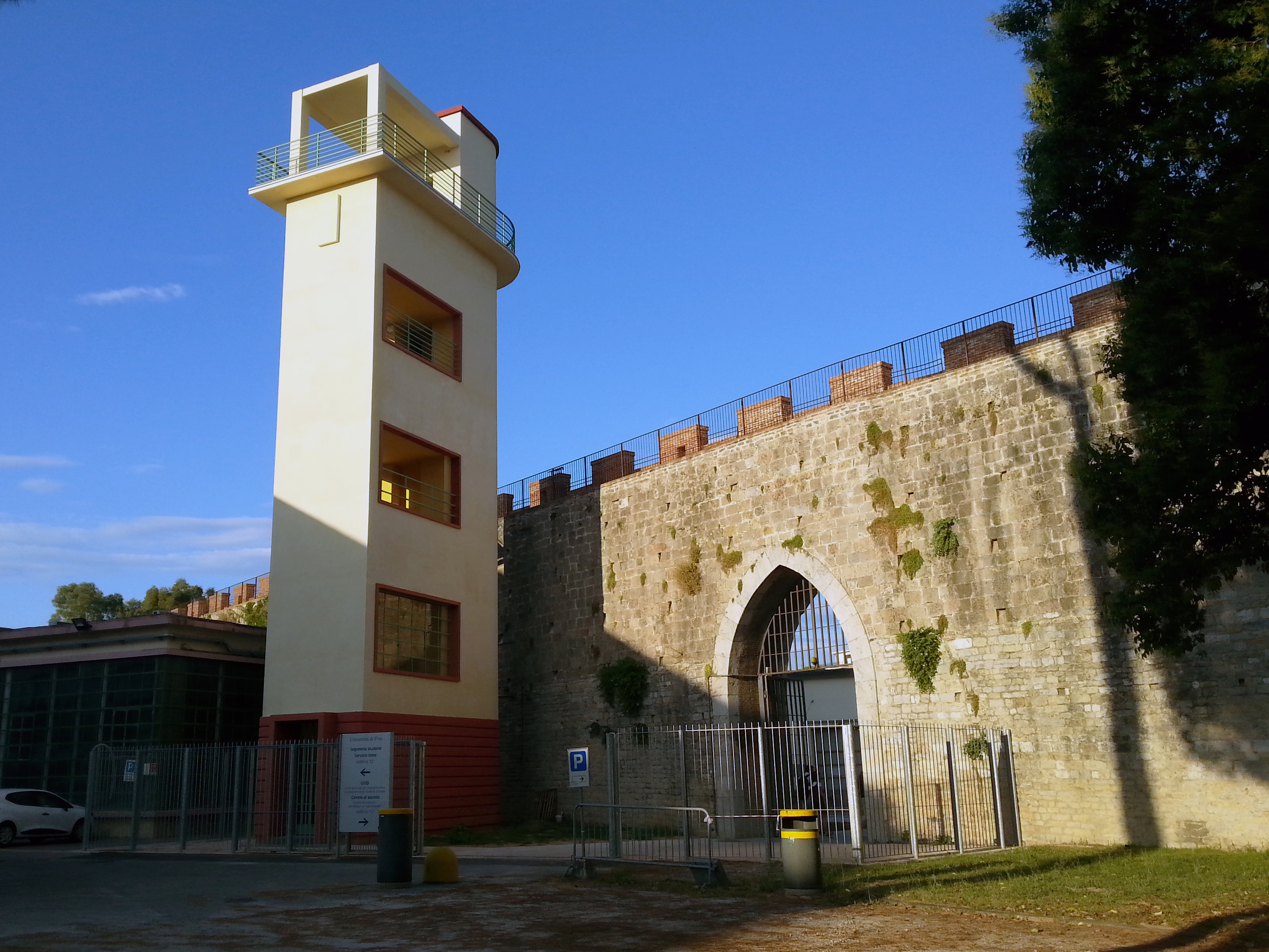 Former Marzotto textile plant (which now hosts some University of Pisa buildings) - Pisa, Italy